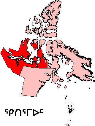 Nunavut Territory highlighting Kitikmeot Region Created and uploaded by Keith Edkins (The Iniktitut syllables are as used by the Kitikmeot Inuit Association [1])